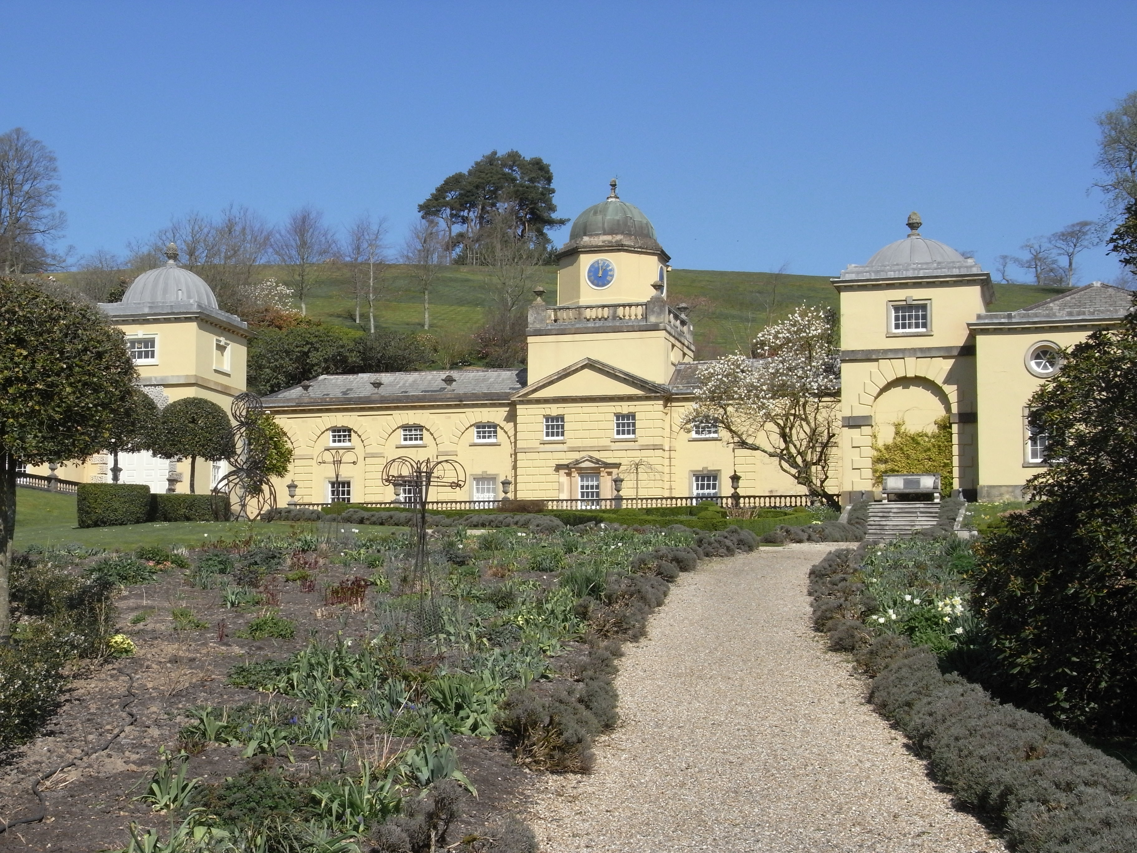 Castle Hill, Filleigh, Devon: service wing by Blore, 1861, with clock tower above. Situated on east side of main house.